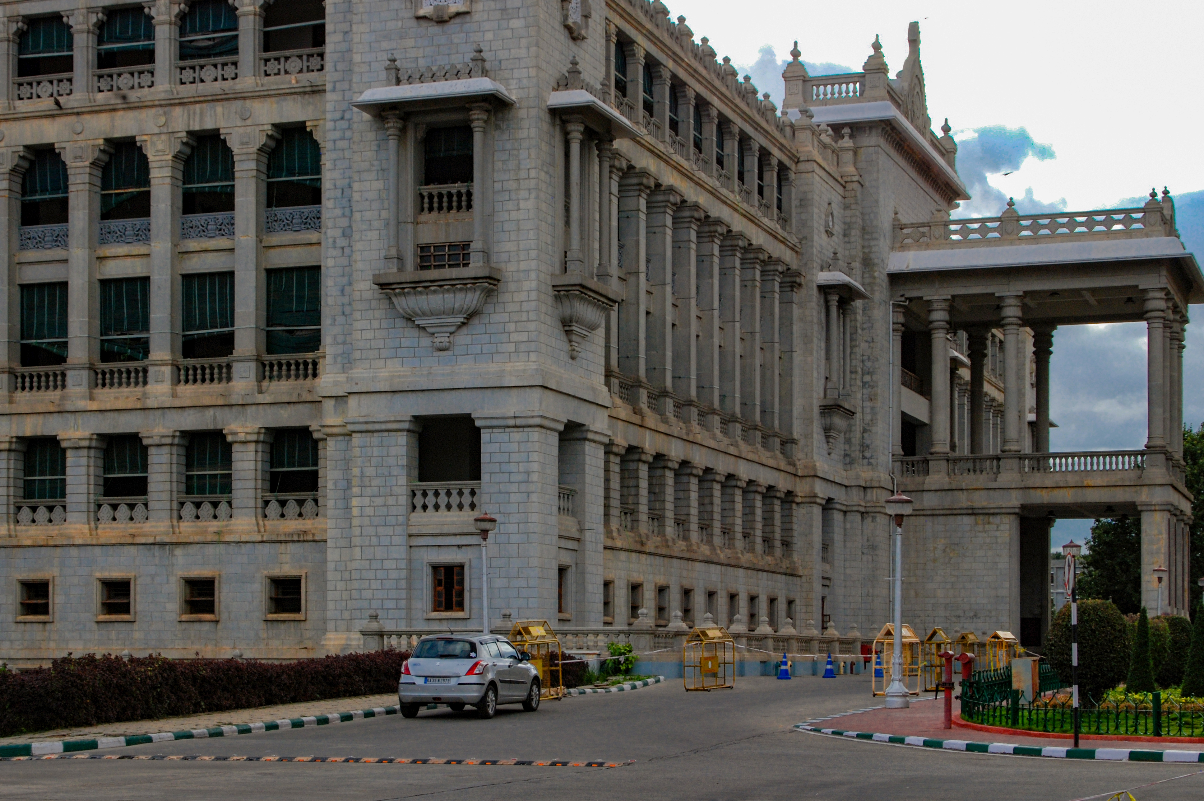 Vikasa Soudha, Bengaluru, Karnataka, India.